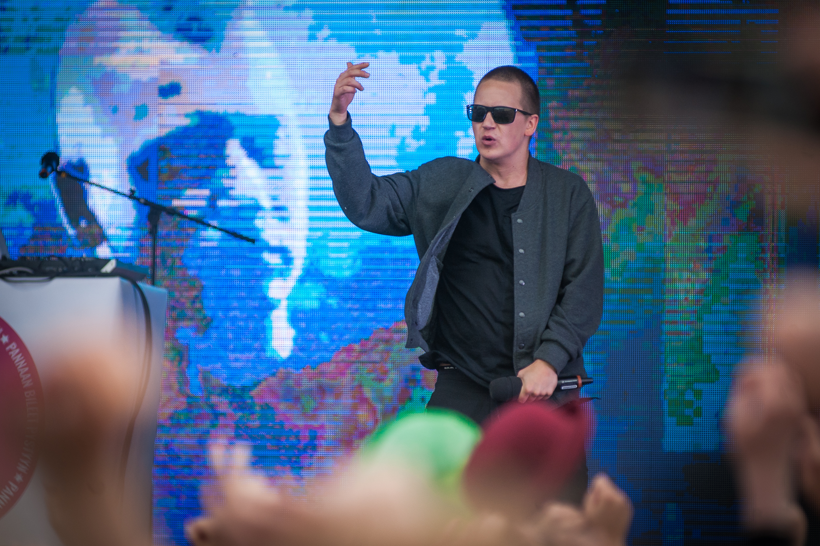 Finnish rap artist Nikke Ankara performing at YleXPop event in Lahti, Finland on the 4th of June, 2016.